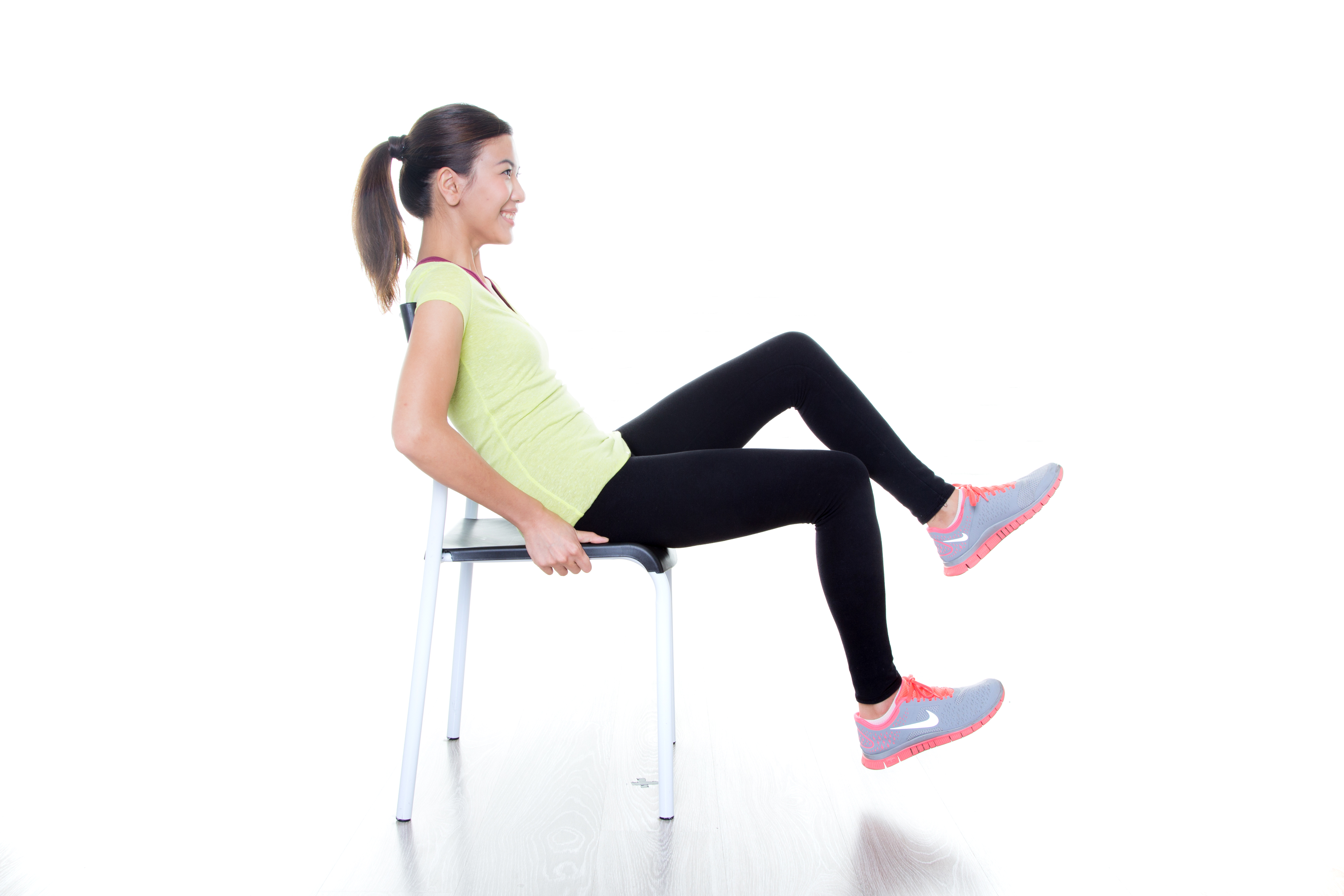 Seated pedalling